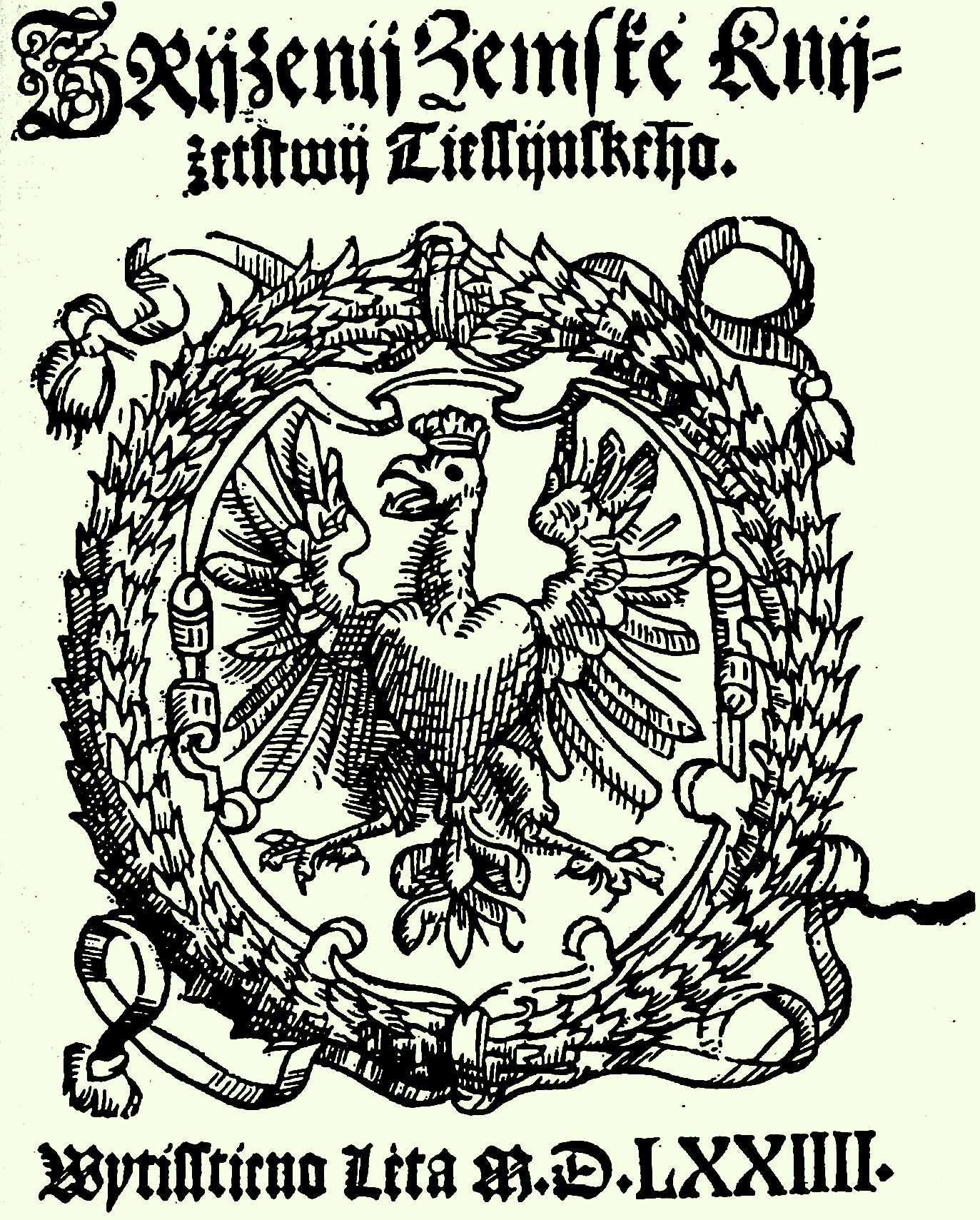 Title page of the Constitution of the Duchy of Teschen, issued by Wenceslaus III Adam, Duke of Teschen, in the year 1573. The constitution was issued in the Czech Language, being the official language of the Duchy at that time. This particular edition of the Constitution was published in the year 1574.